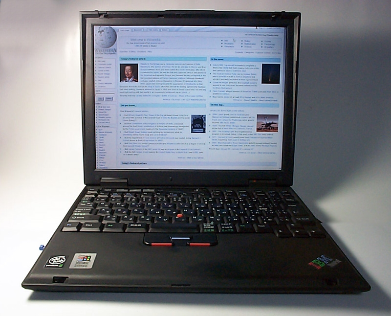 Personal Computer ThinkPad_X20 IBM Japan